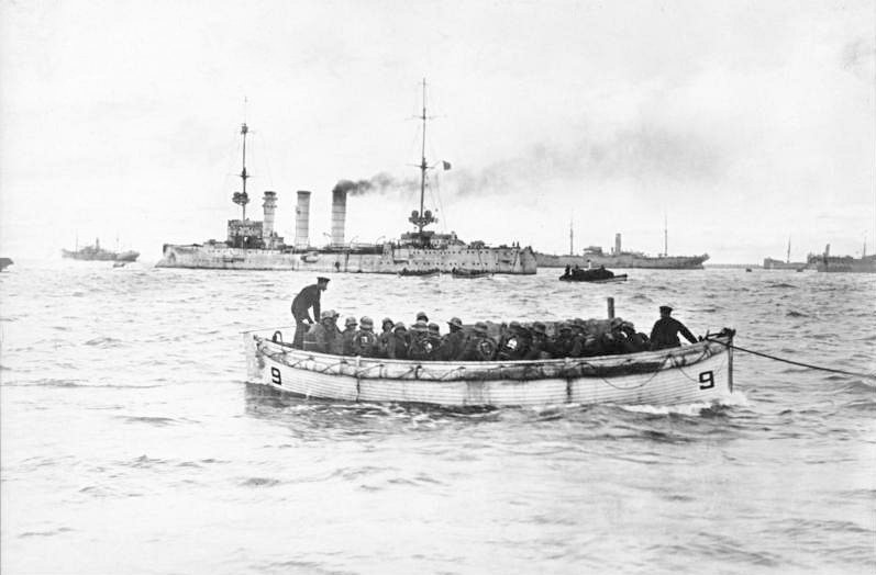 German troops prepare to land on the baltic sea island of Saaremaa in 1917. Ship in background is SMS Danzig